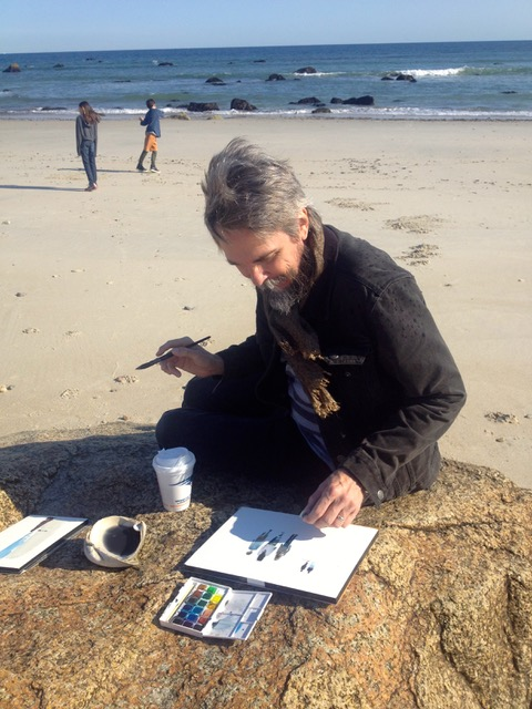 Jon J Muth